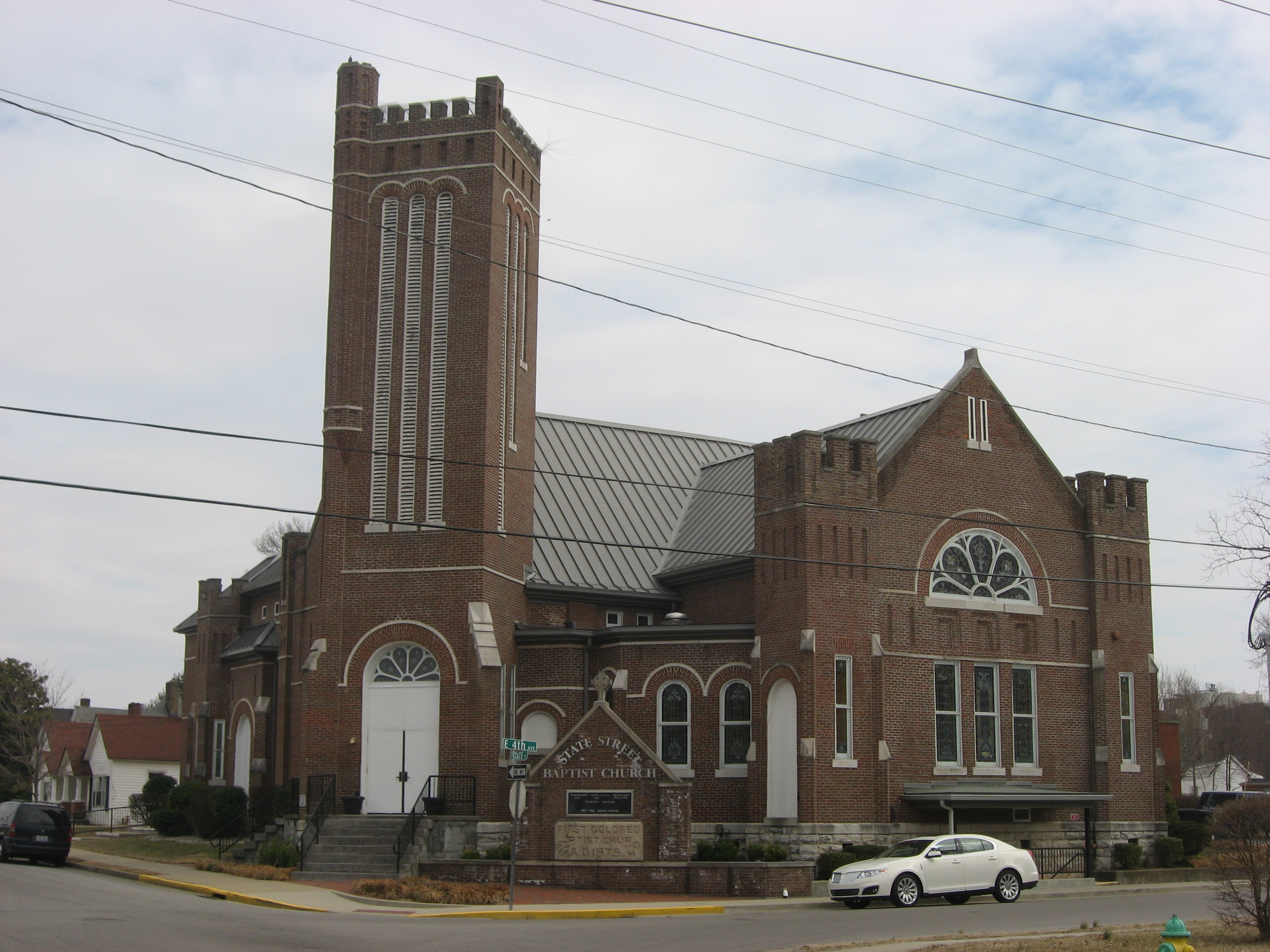 Front and western side of the State Street Baptist Church (formerly the First Colored Baptist Church), located at 340 State Street in Bowling Green, Kentucky, United States. Built in 1898, it is listed on the National Register of Historic Places.